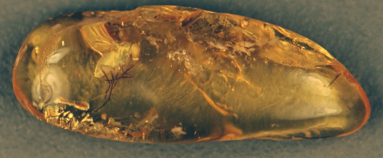 Fossil fly in Baltic amber (polished; 16 mm across) from the Eocene of Yantarnyi, western Russia. Fossils in amber are some of the most intriguing remains of ancient organisms anywhere in the rock record. Amber is fossilized tree sap (resin). Fossilized tree resin is technically called resinite. This piece of amber comes from the Baltics. Baltic amber is some of the most famous on Earth. Amber specimens from different localities are often given different varietal names. Baltic amber is a type of resinite often called succinite. Some amber specimens have body fossil inclusions, and others don't. The amber itself is a biogenic product, not a body fossil. The Baltic amber shown here has a nice fossil inclusion. This insect is a fly (Animalia, Arthropoda, Insecta, Diptera, Brachycera). Note that this fossil fly is covered in a whitish milky material. That is a decay coating. This is commonly encountered in Baltic amber, and is one diagnostic method of identifying genuine succinite (there’s lots of fake amber fossils out there). This amber specimen also has lots of minute, stellate trichomes (not visible in photo) that are also unfakeable (I think). They are “down” - epidermal hairs on flowers & leaf buds from ancient oak trees. These are abundantly preserved in genuine Baltic amber. Stratigraphy: “Blue Earth layer”, “Amber Formation”, Lutetian Stage, lower Middle Eocene. Locality: Yantarnyi, coastal western Samland Peninsula, western Kaliningrad District, Baltic Sea, far-western Russia.